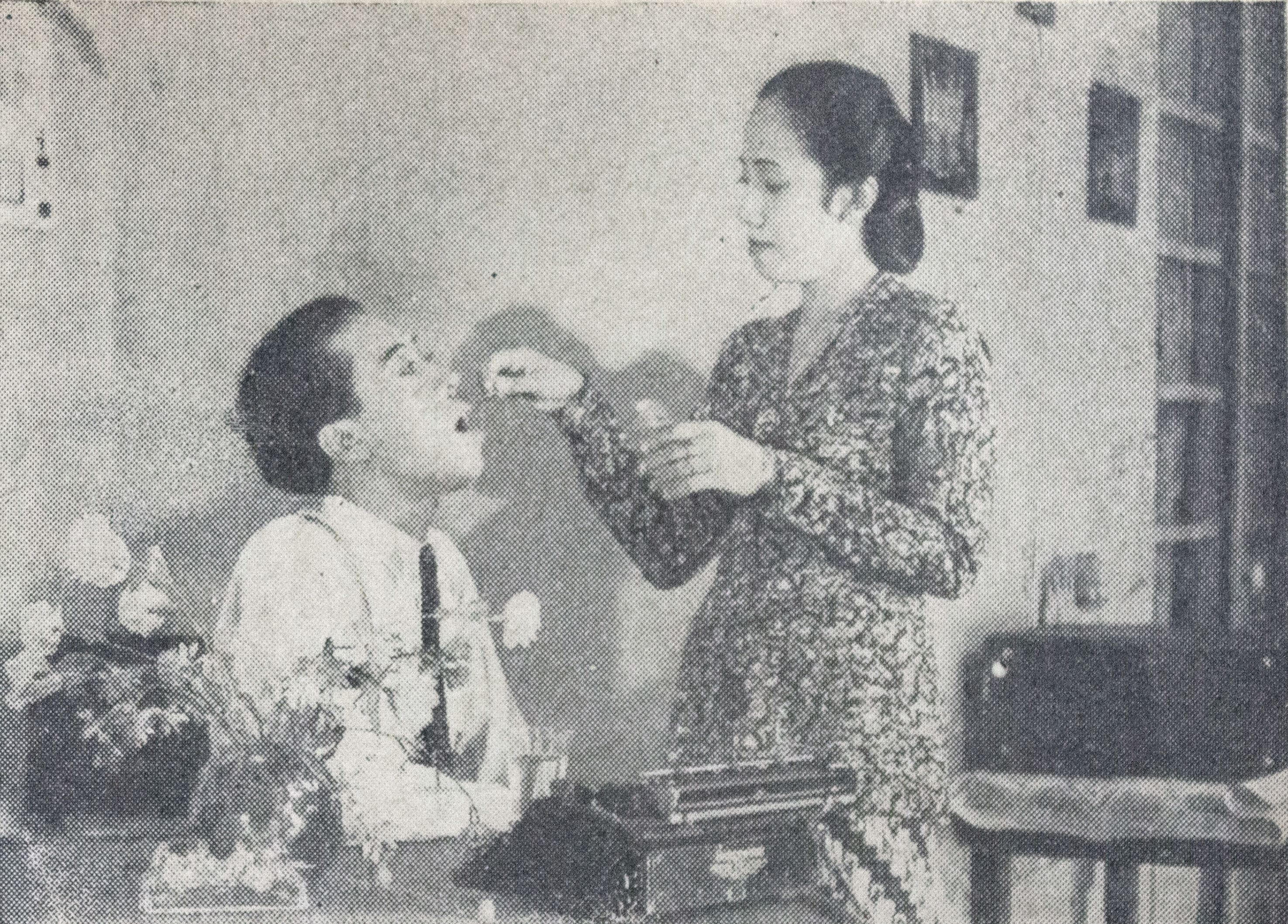 Oedjang and Soehana in Mega Mendoeng